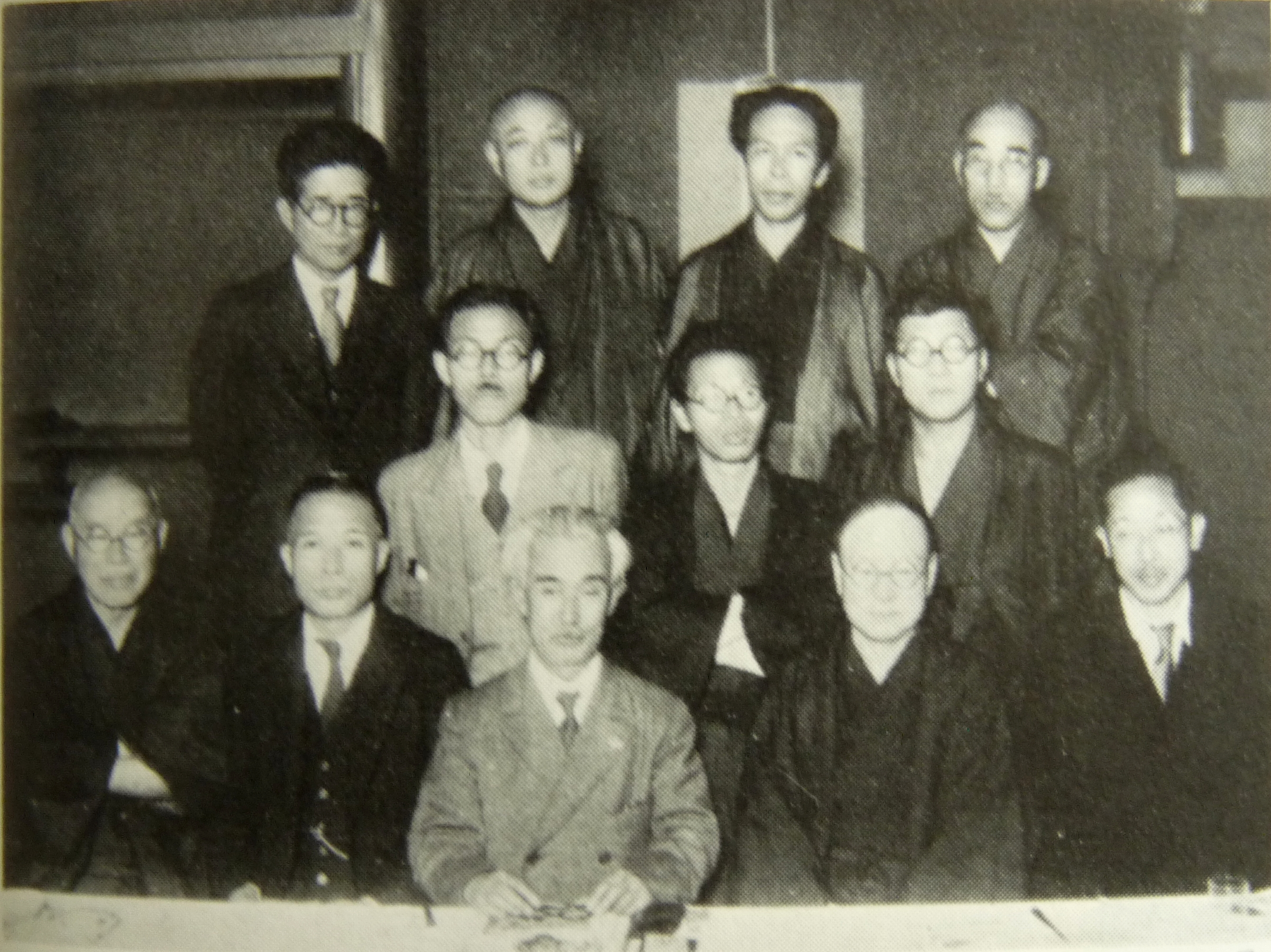 (front left) Iwasaburo Okino, Roson Ashiya, Ujaku Akita, Akira Maeda, Yoshihiko Fujisawa. (middle left) Asahiko Sakai, Kenjiro Tsukahara, Taiji Kawasaki. (back left) Yuji Ooki, Mimei Ogawa, Kusuro Makimoto, Koji Uno.